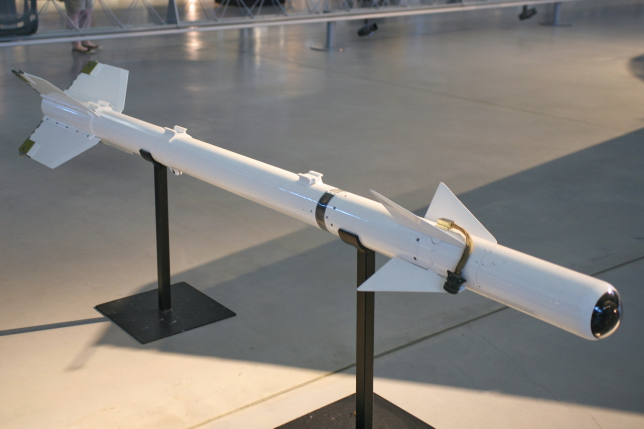 This is the Atoll, an air-to-air missile of the former Soviet Union. Atoll is the NATO code name for the Soviet K-13, a copy of the U.S. Sidewinder air-to-air, heat-seeking missile.